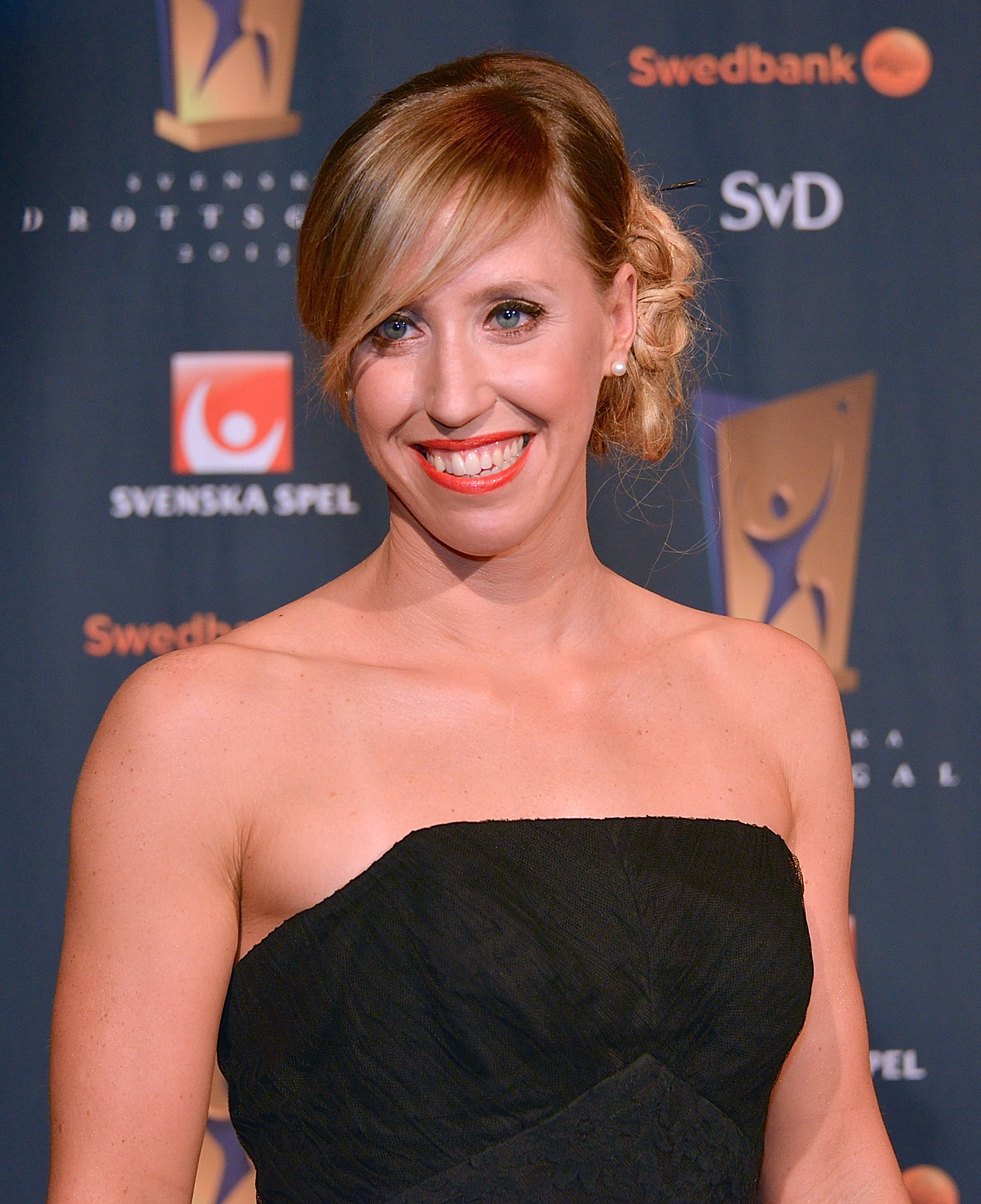 Lisa Nordén - winner of Jerring Prize January 14th 2013.